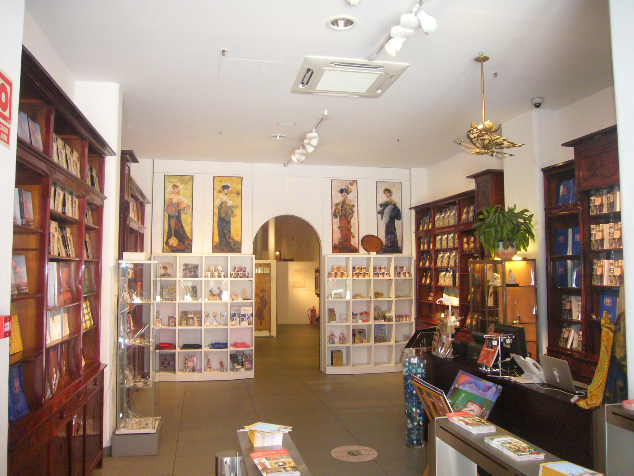 Museu del Modernisme Català, carrer Balmes, 48